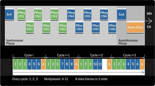 Multiplexing in Ethernet POWERLINK